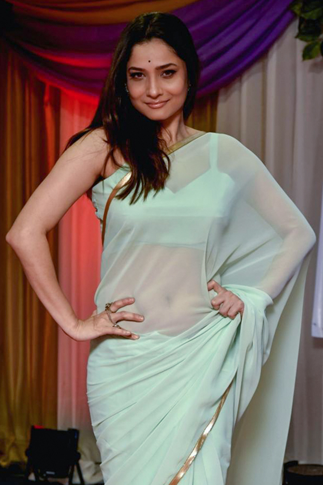 Actress Ankita Lokhande during a programme at Animedh NGO, in Mumbai on March 27, 2018